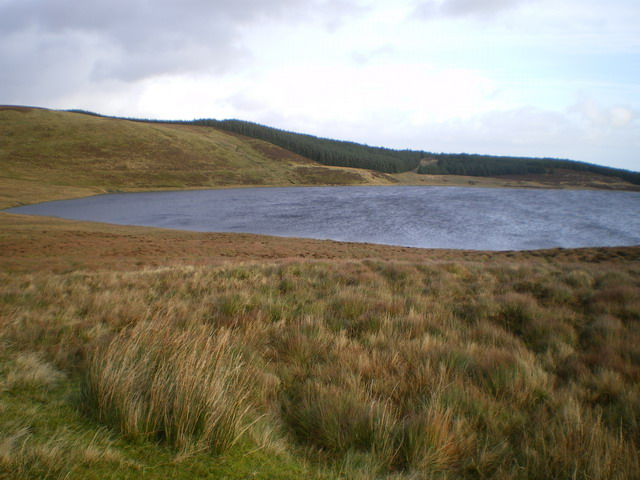 Llyn Gwyddior from the west